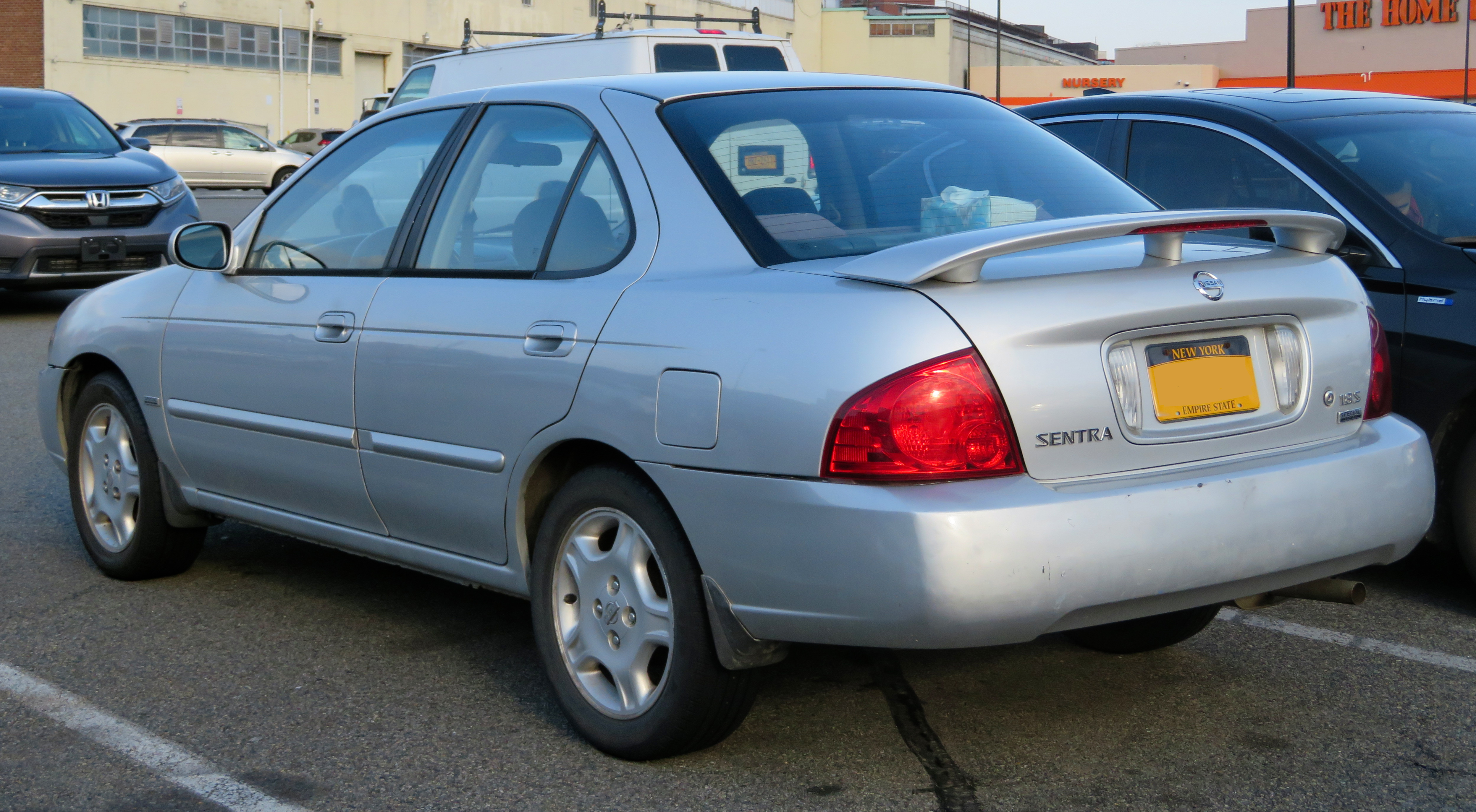 A 2005 Nissan Sentra Special Edition photographed in Flushing, Queens, New York, USA.